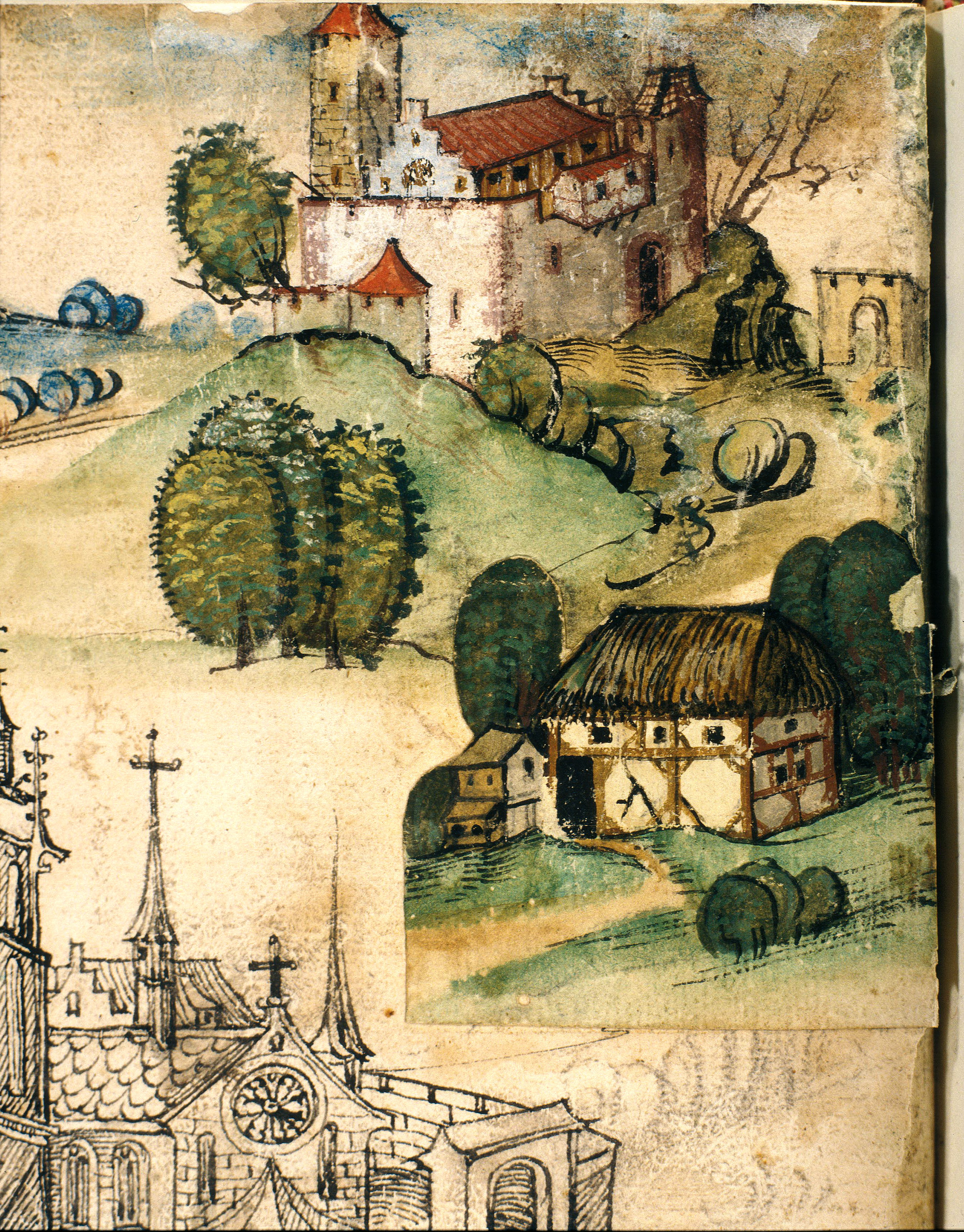 Dübendorf / Zürich : Castle Dübelstein (so-called «Waldmannsburg» and propably Fraumünster Abbey in Zürich (to the left).)